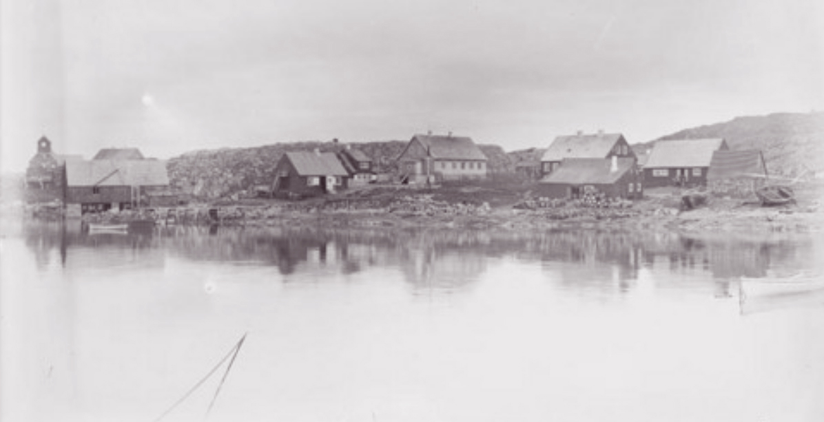 Narsaq Kujalleq (Frederiksdal), South Greenland, 1900